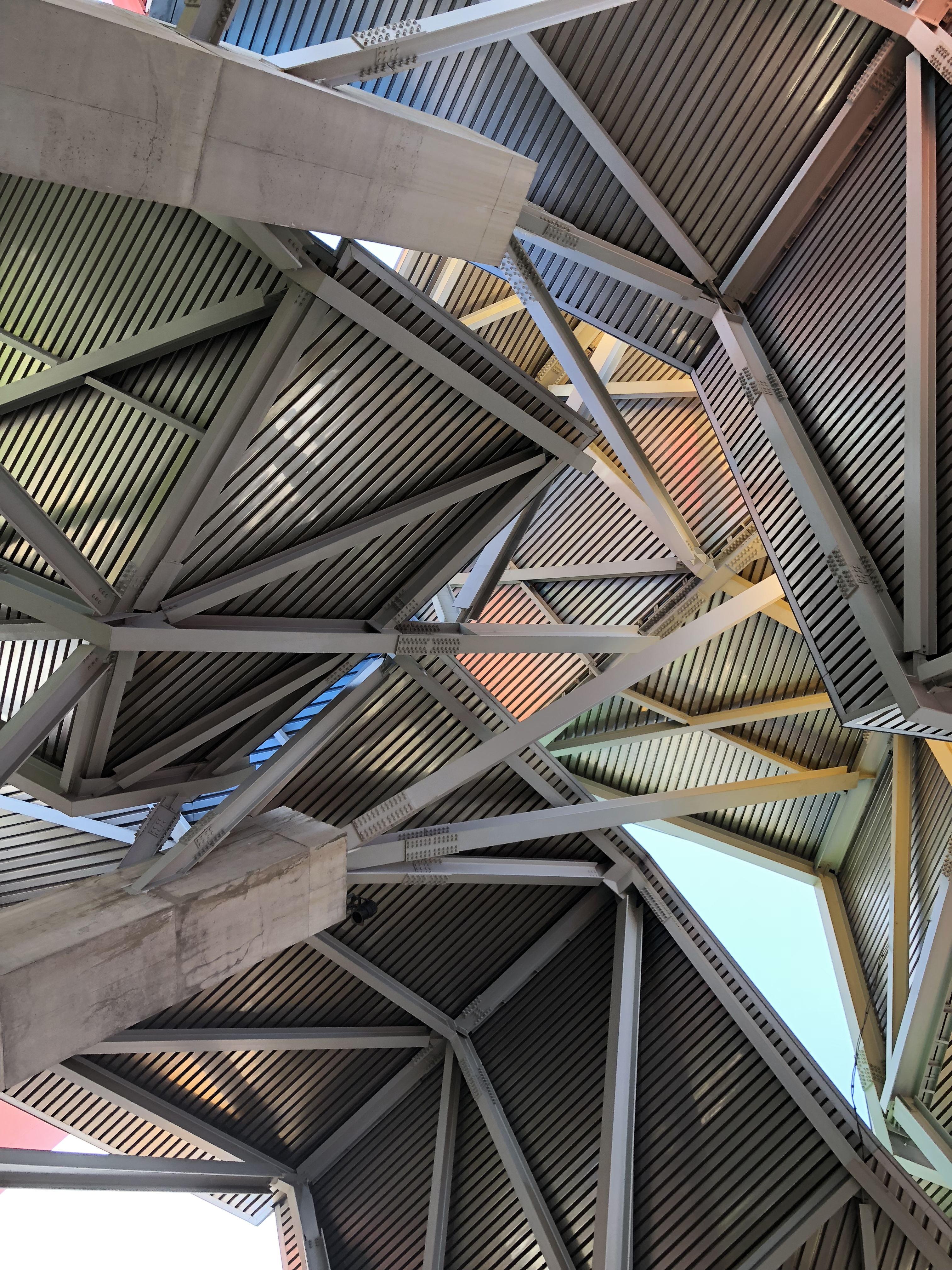 Biomuseo, Panama City, ceiling detail